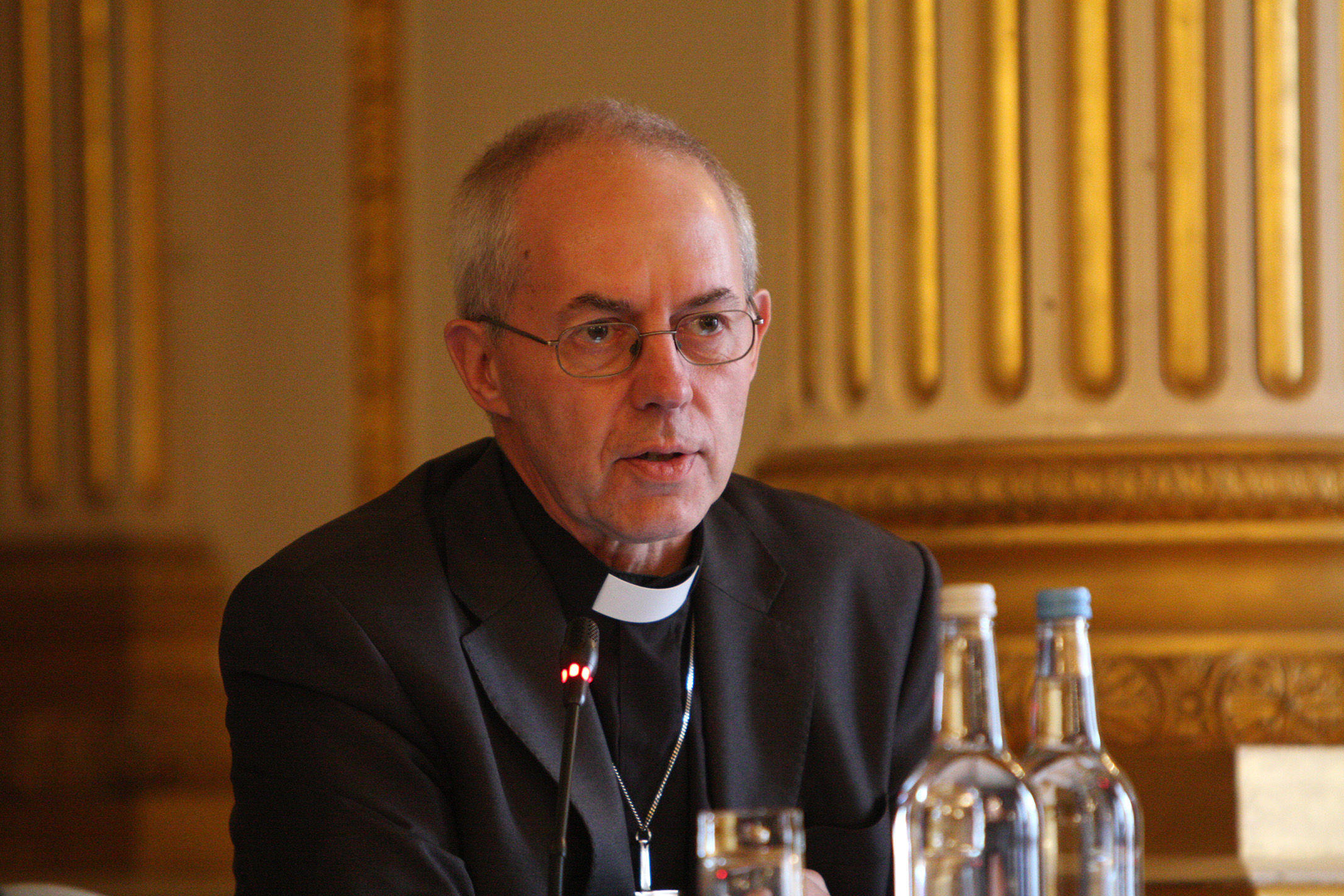 The Archbishop of Canterbury, the Most Revd and Rt Hon Justin Welby at the Mobilising Faith Communities in Ending Sexual Violence in Conflict meeting in London, 9 February 2015.